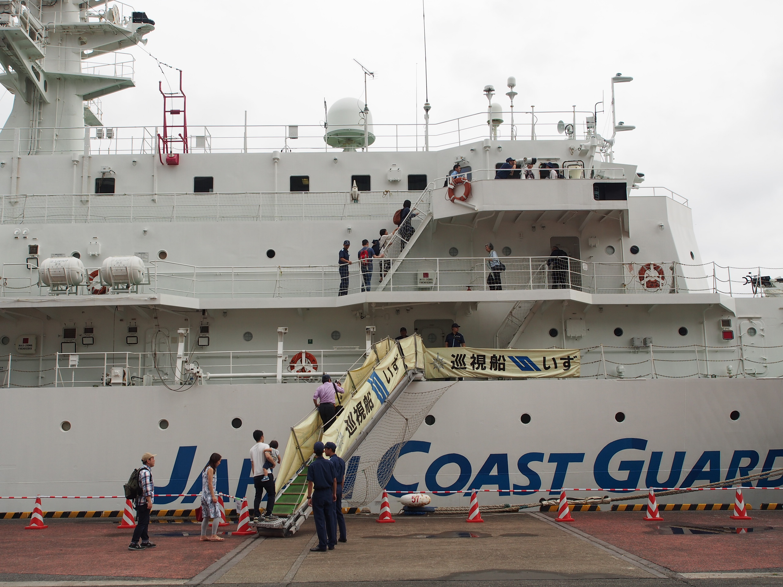 Japan Coast Guard Patrol Vessel PL31 Izu on the open house day at Harumi Pier in Tokyo, Japan.